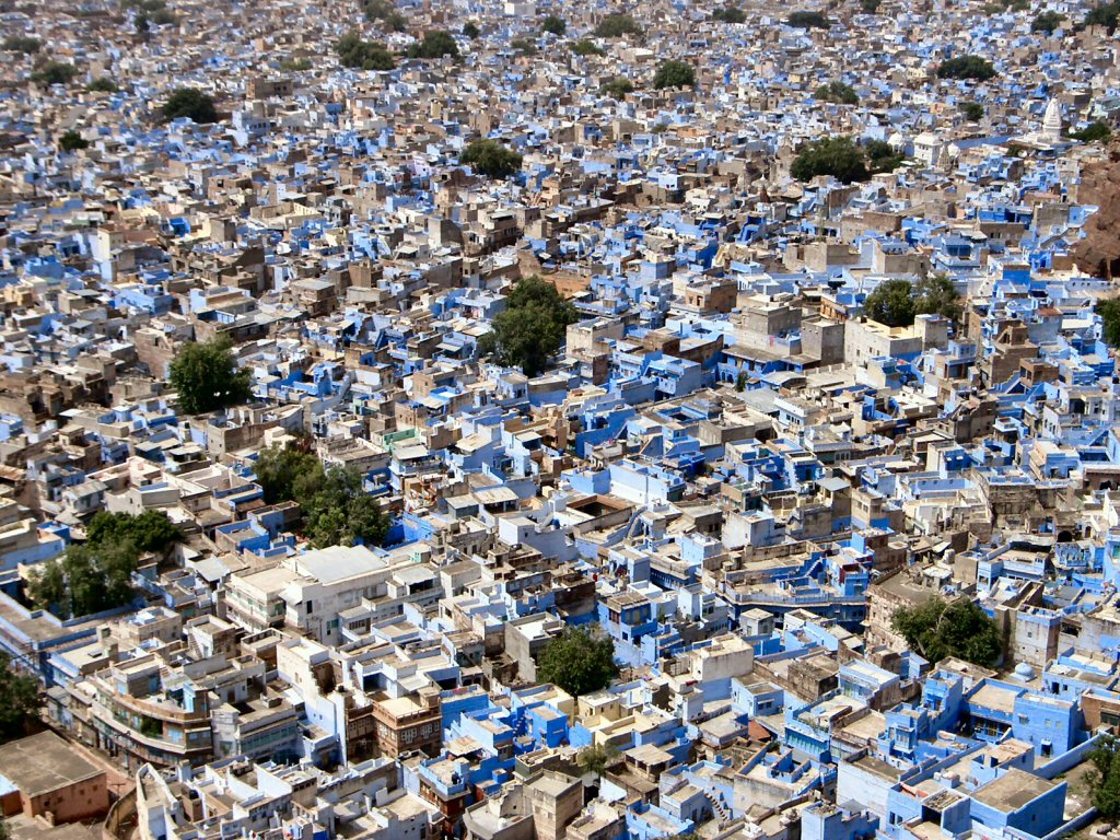 Jodhpur, India